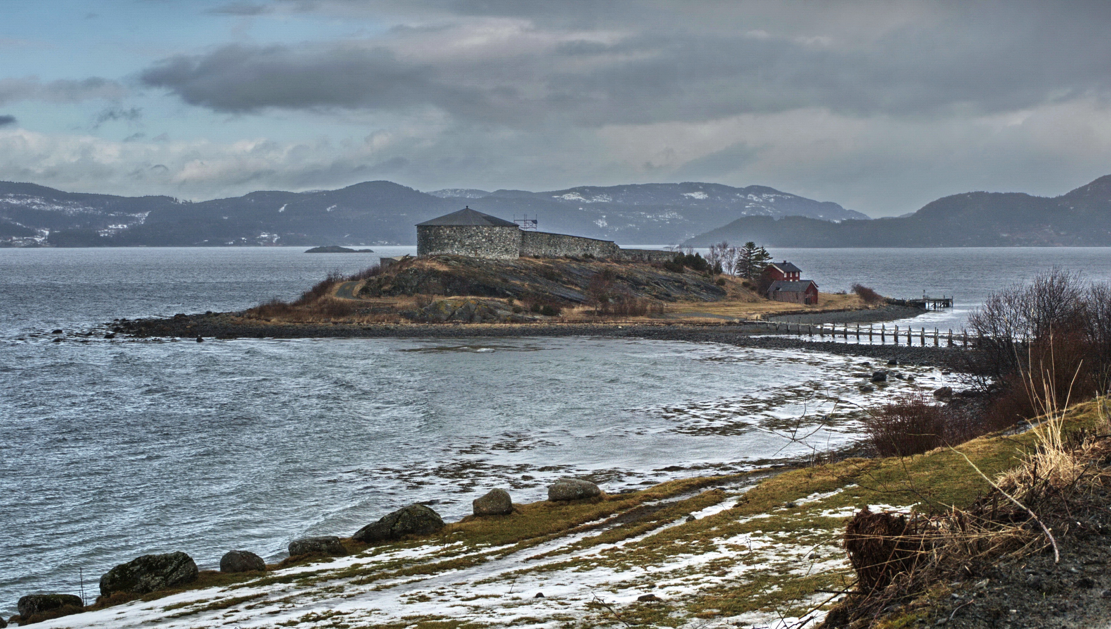 The Steinvikholmen medieval fort